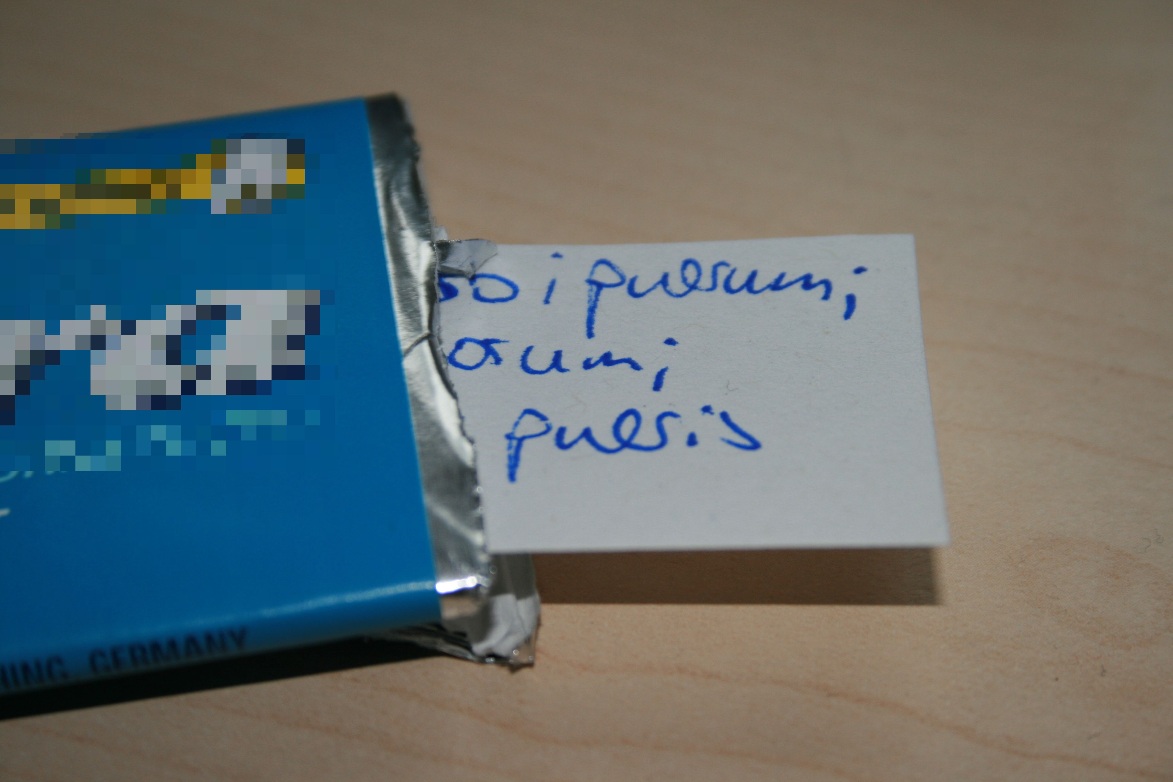 Cheat sheet in a bubble-gum box